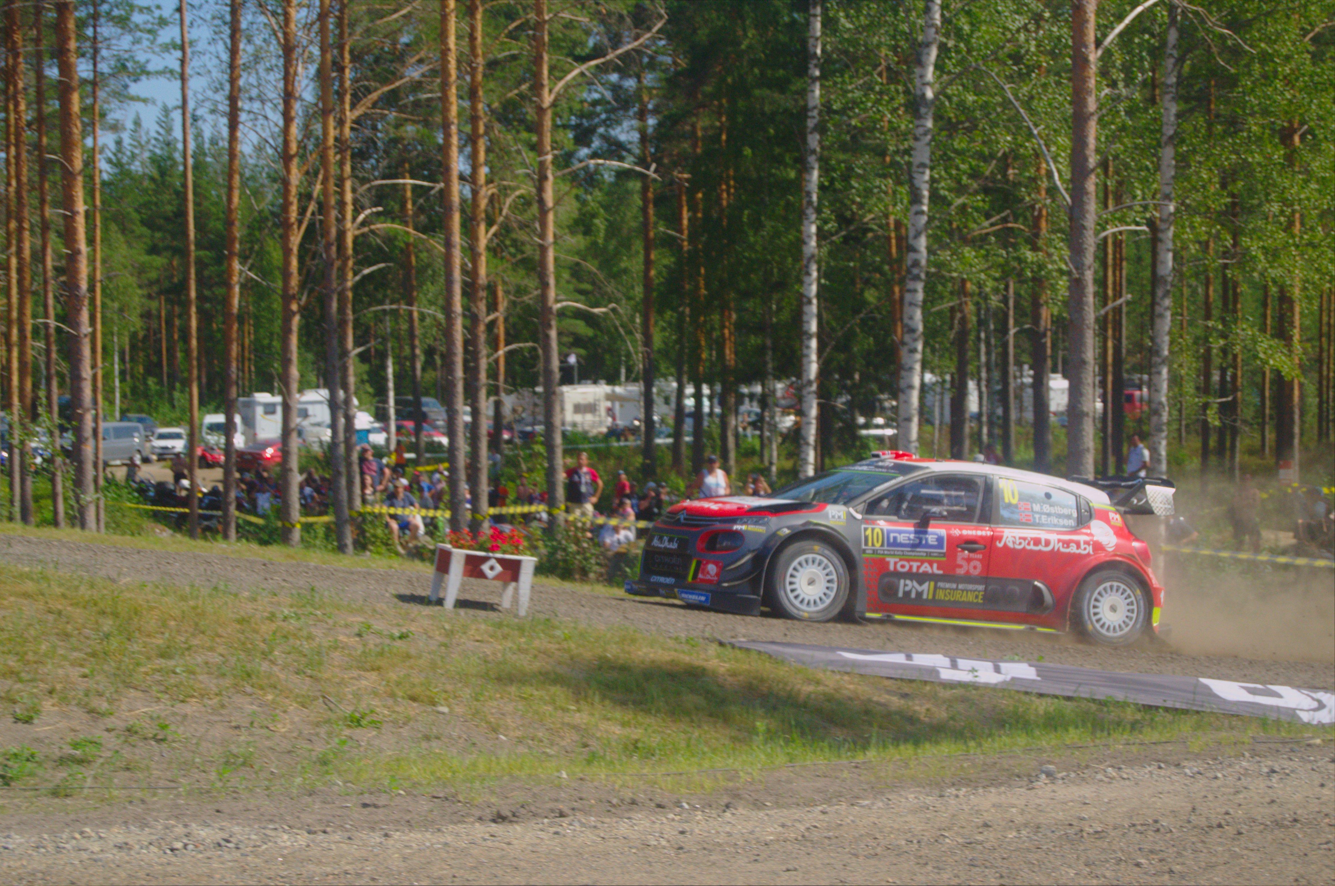 Mads Østberg at second Ruuhimäki stage at Rally Finland 2018